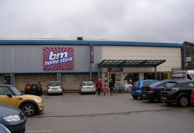 b & m home store - Cavendish Street Retail Park